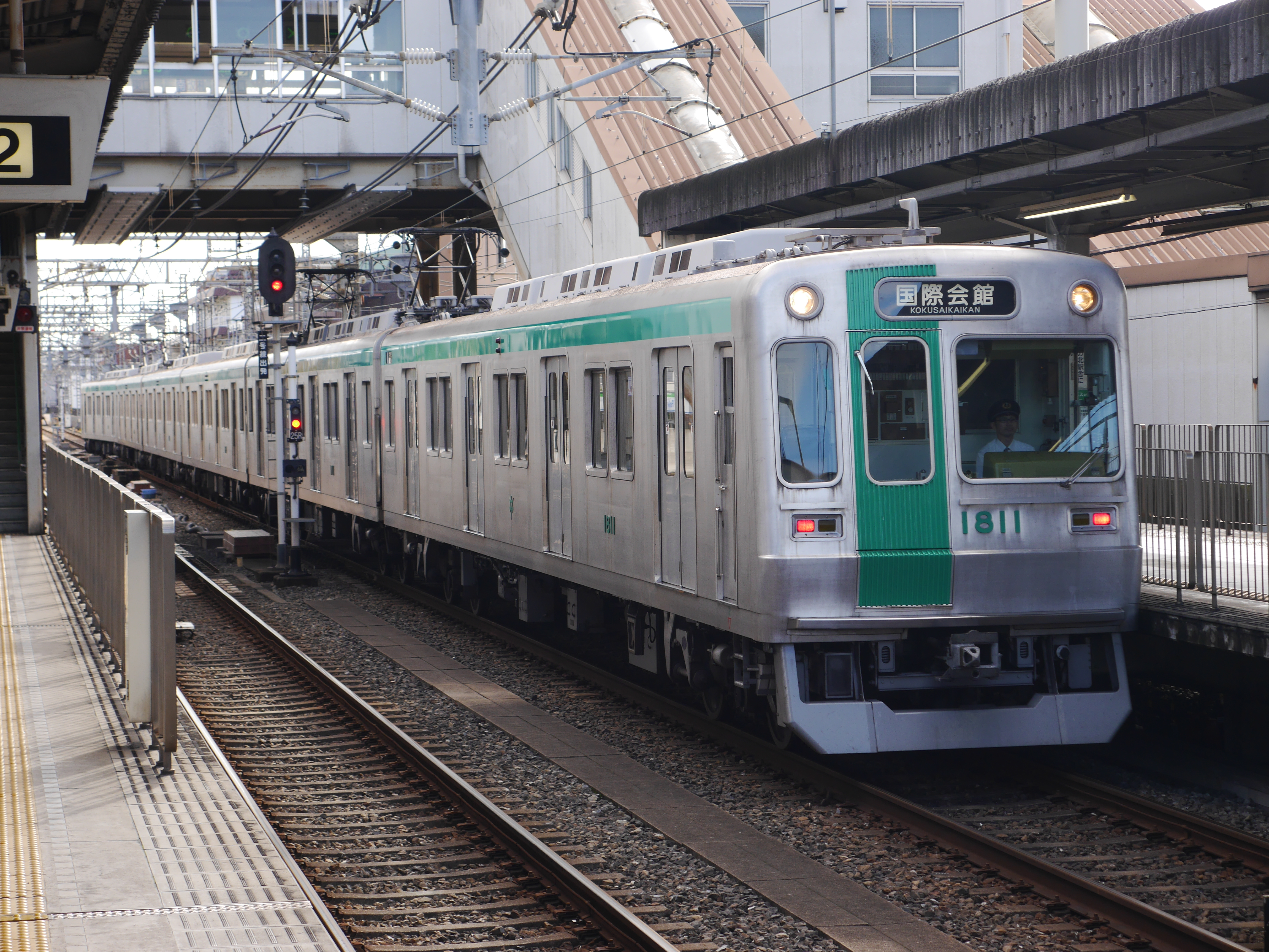 Kyoto subway 10A series unit 11 at Takeda station